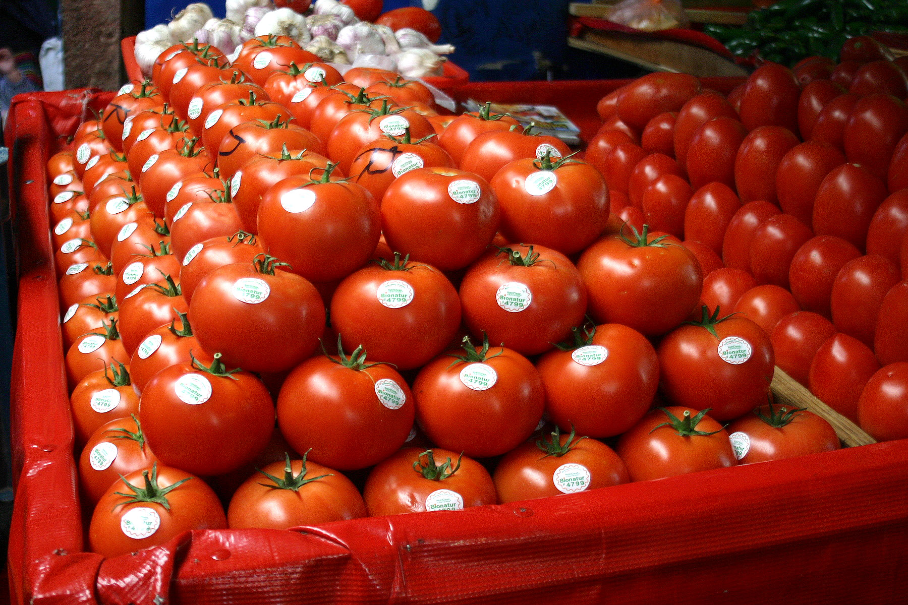 A row of jitomate in a market in Tepoztlan, Mexico December 2006